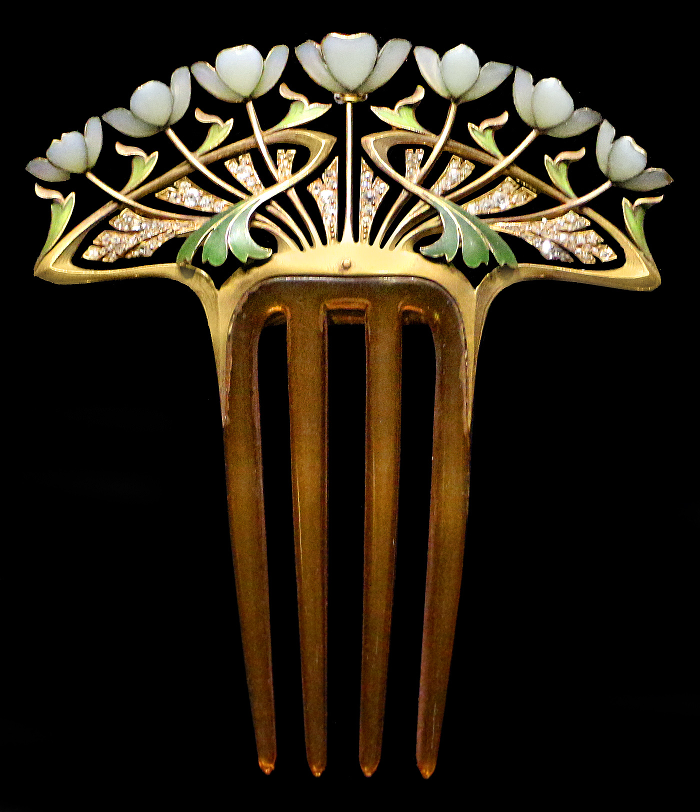 Decorative arts in the Musée d'Orsay